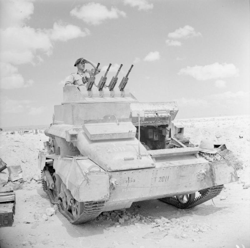 THE BRITISH ARMY IN NORTH AFRICA 1942. Vickers Light Tank AA Mk 1, a stop-gap anti-aircraft tank armed with four 7.92mm Besa machine guns, 15 September 1942.